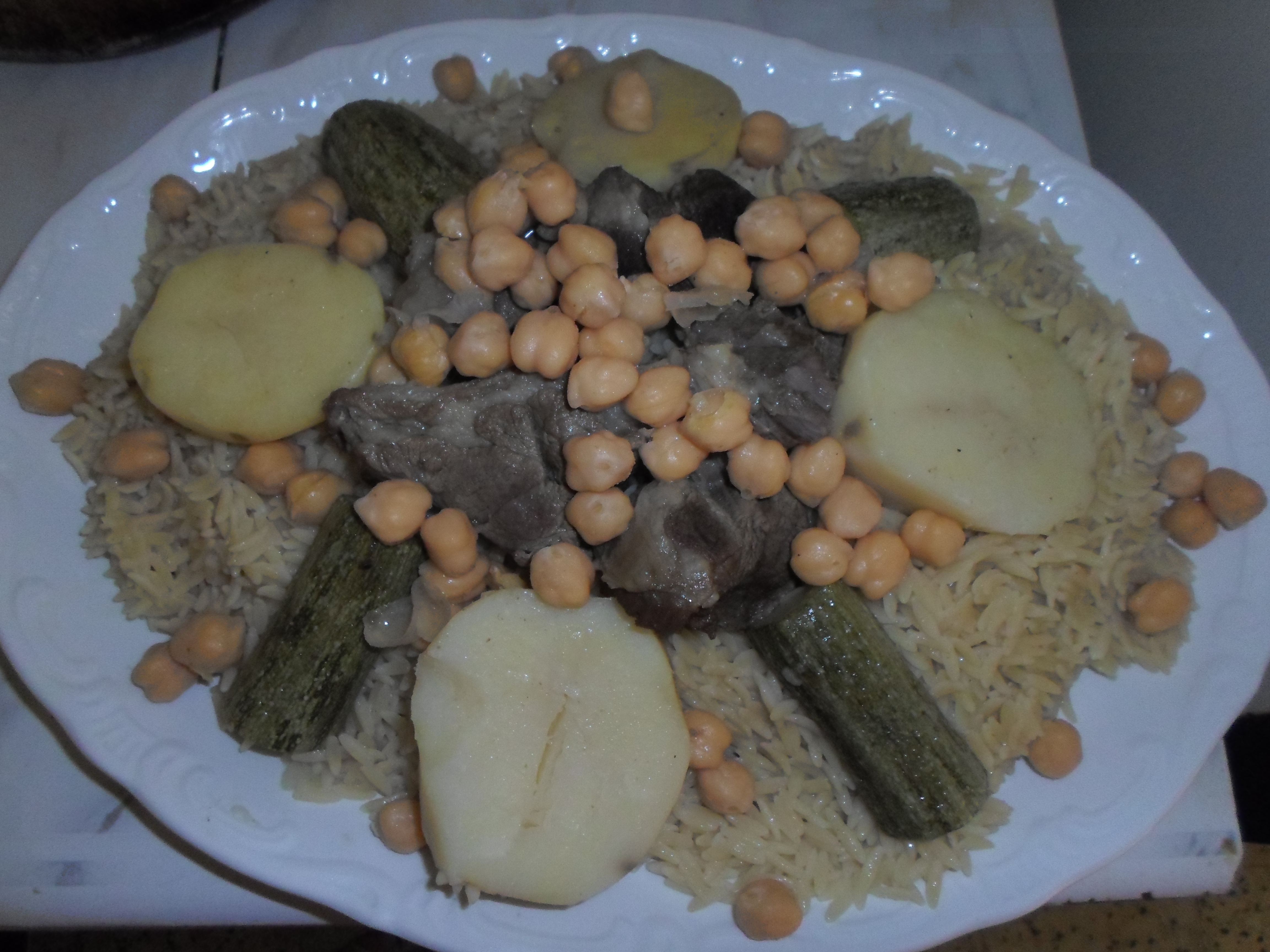 it's one of the Algerian traditionnal dishes This is an image of food from Algeria